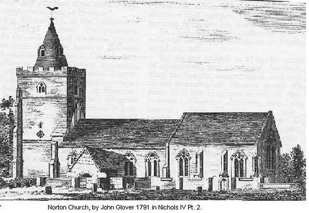 An image of Holy Trinity Church, Norton Juxta Twycross, (complete with now demolished spire) C.1791.